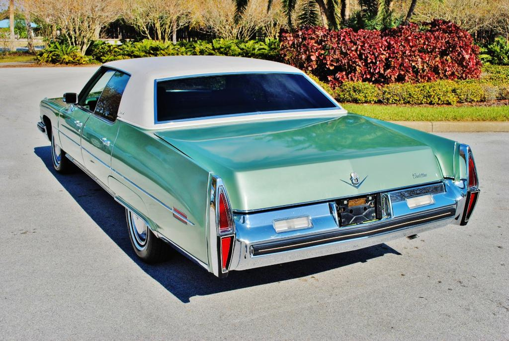 This is a picture of a vehicle (name of it is on the file name).